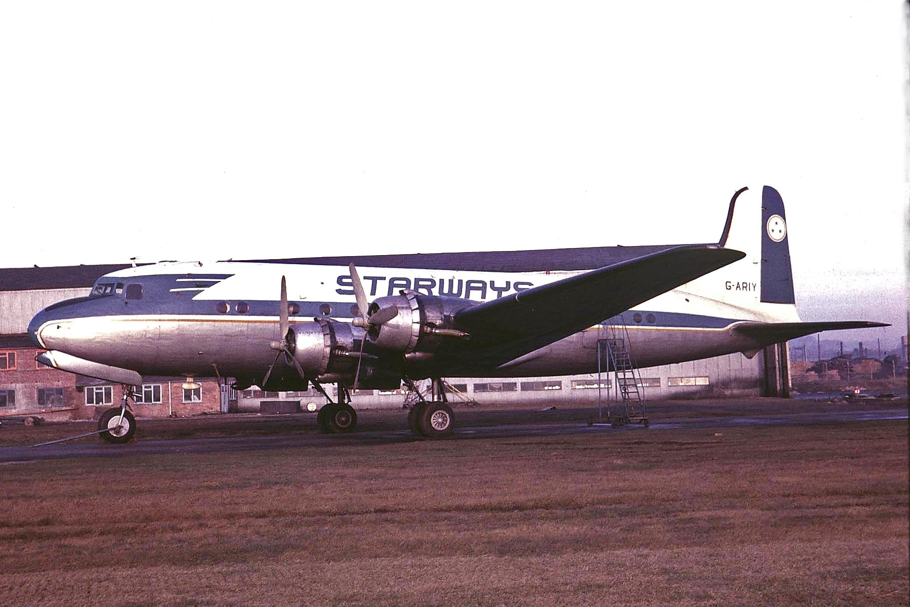 G-ARIY was a post war production DC-4. When Starways were taken over by British Eagle in Jan-64, Aviation Overhauls were unable to sell it as it didn't have a cargo door or freight floor. It ended it's days with the Liverpool Airport Fire Service